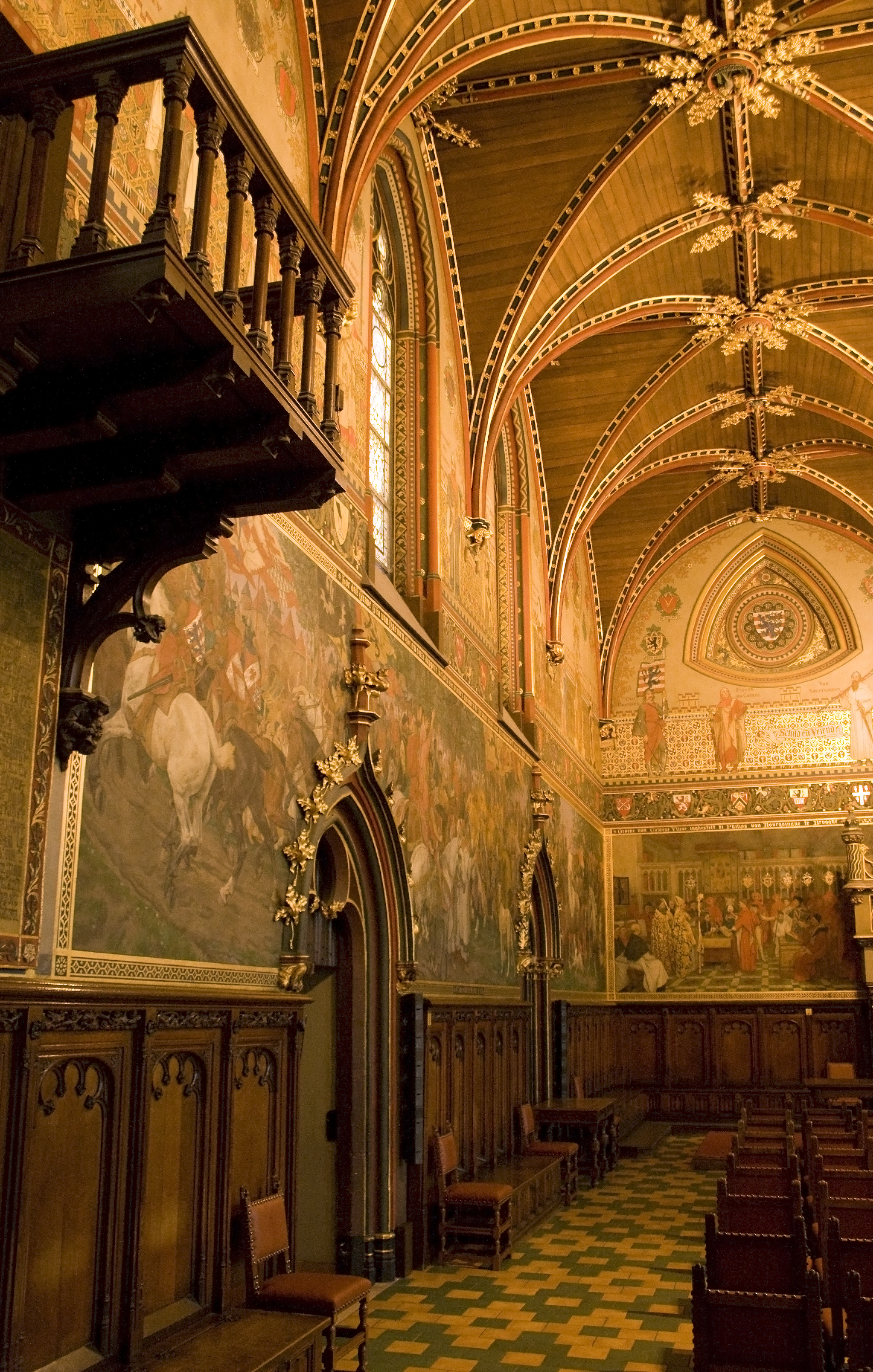 Gothic hall - southern wall